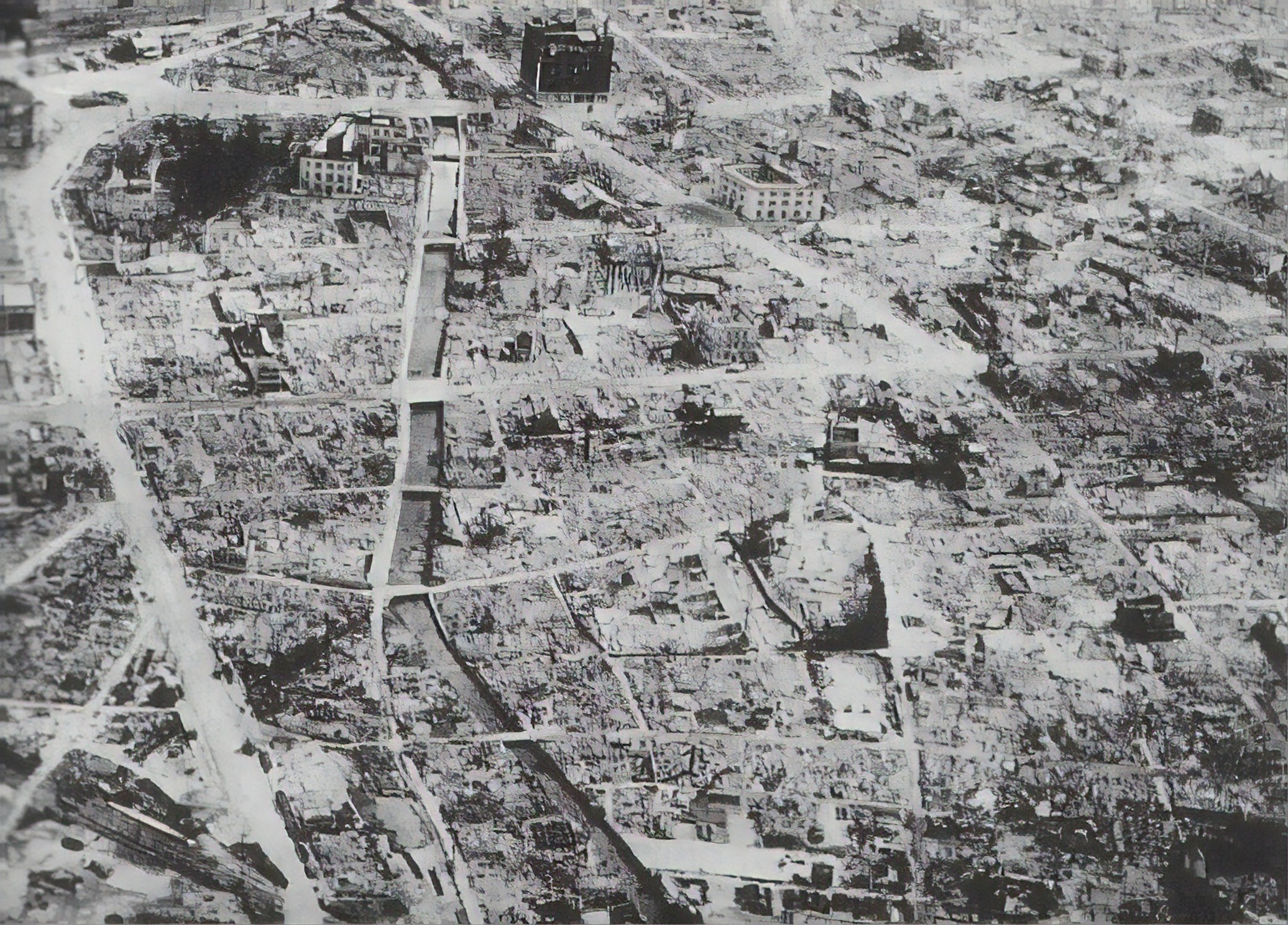 Hamamatsu after the 1945 air raid